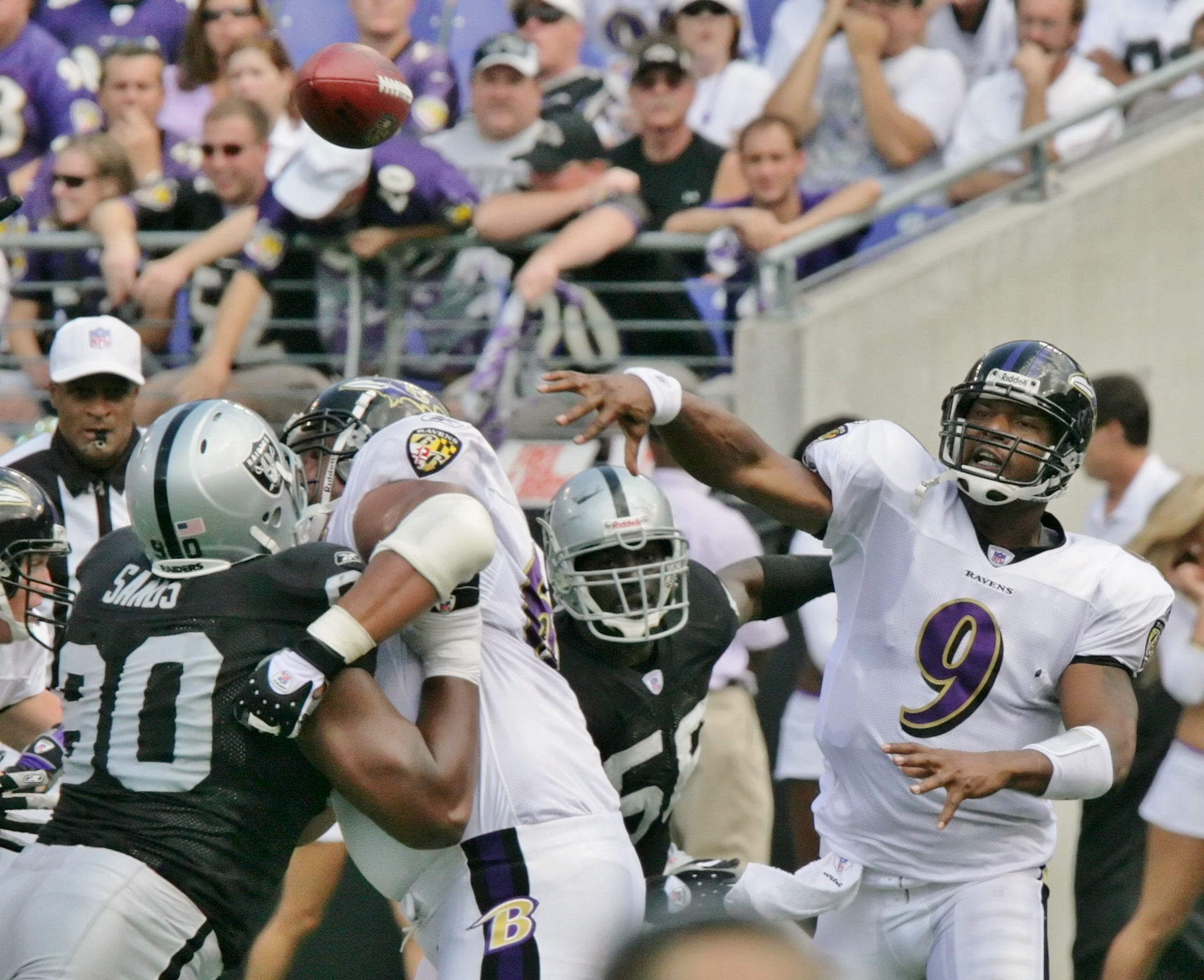 Baltimore Ravens quarterback Steve McNair attempts a pass in the Sept. 17, 2006 game against the Oakland Raiders at M&T Stadium in Baltimore.